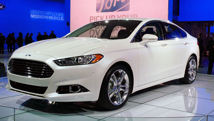 2013 Ford Fusion unveiled at the January 2012 NAIAS, Detroit